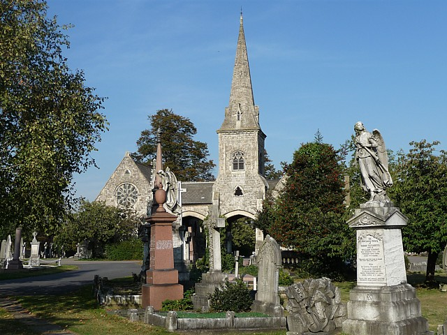 Cemetery chapels, Queen's Road The cemetery has two chapels joined by an entrance with two arches and surmounted by a tower. They were built of ragstone in the Decorated Gothic style in 1860 (Pevsner says c1880) when the cemetery opened. Both are now disused.